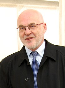 Rudolf Gehring CPÖ cropped